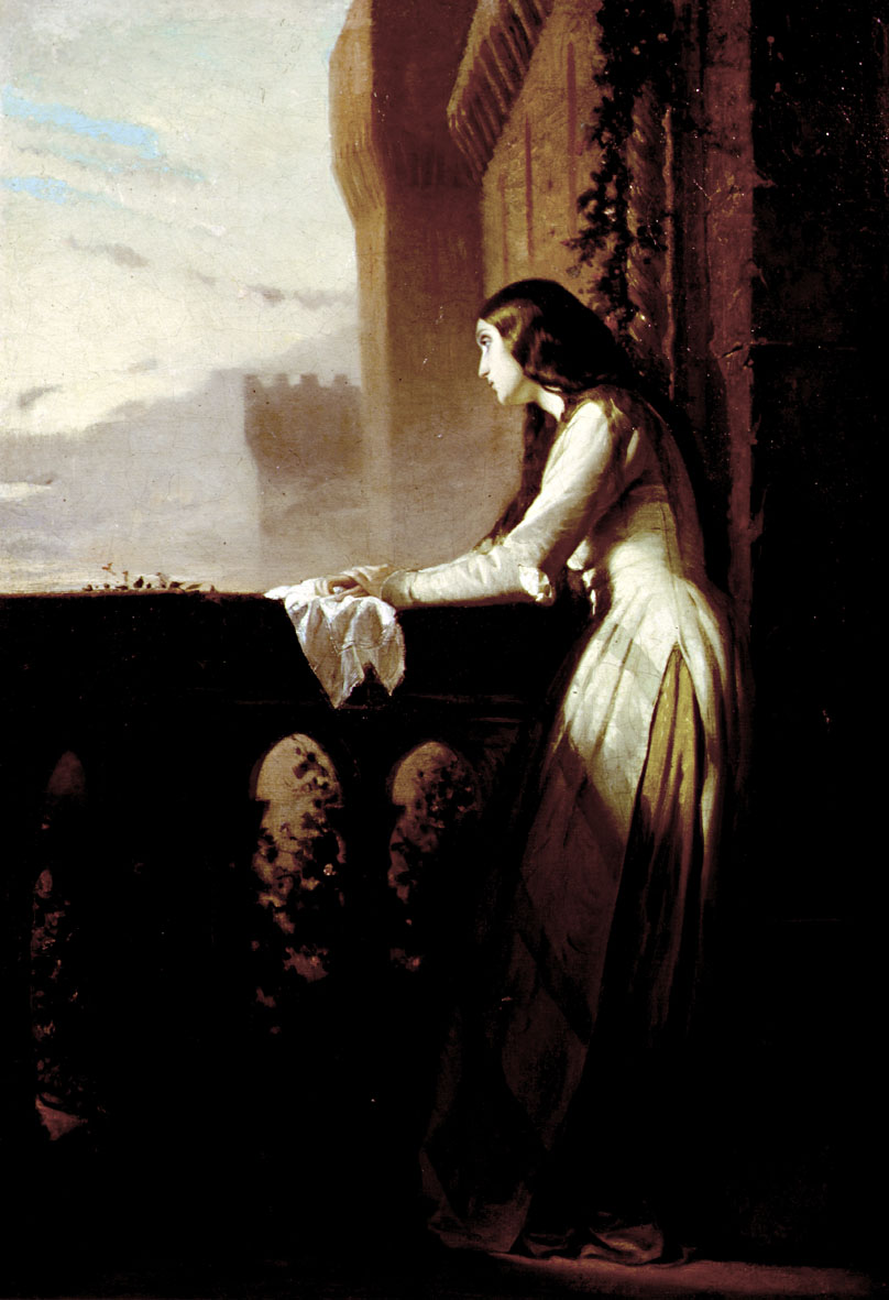 Cf. Dante, Divine Comedy, Purgatory, book, vv. 130-136